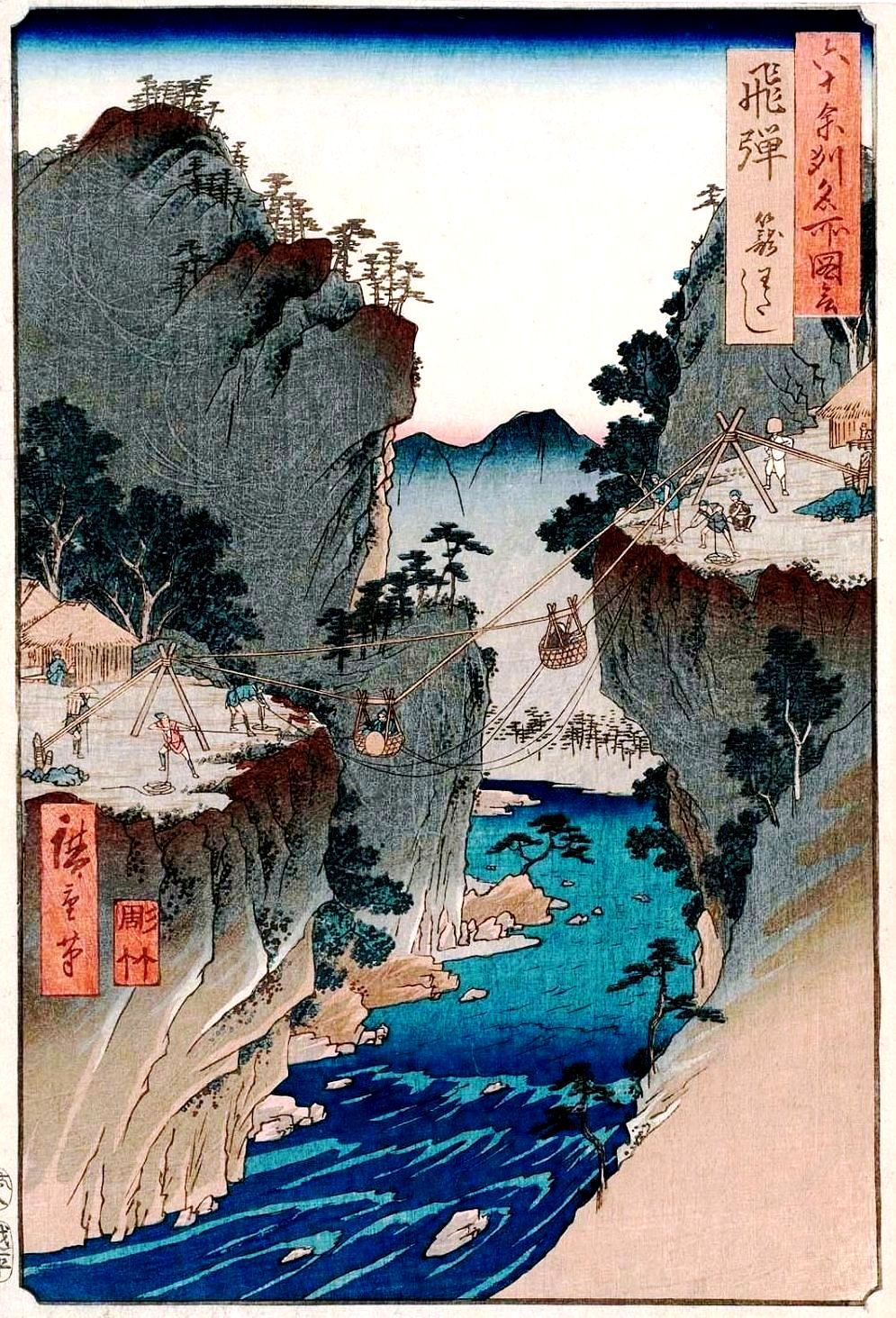 Hida Province: Basket Ferry (Hida, Kagowatashi), from the series Famous Places in the Sixty-odd Provinces [of Japan] ([Dai Nihon] Rokujûyoshû meisho zue) by Utagawa Hiroshige I (Japanese, 1797–1858)